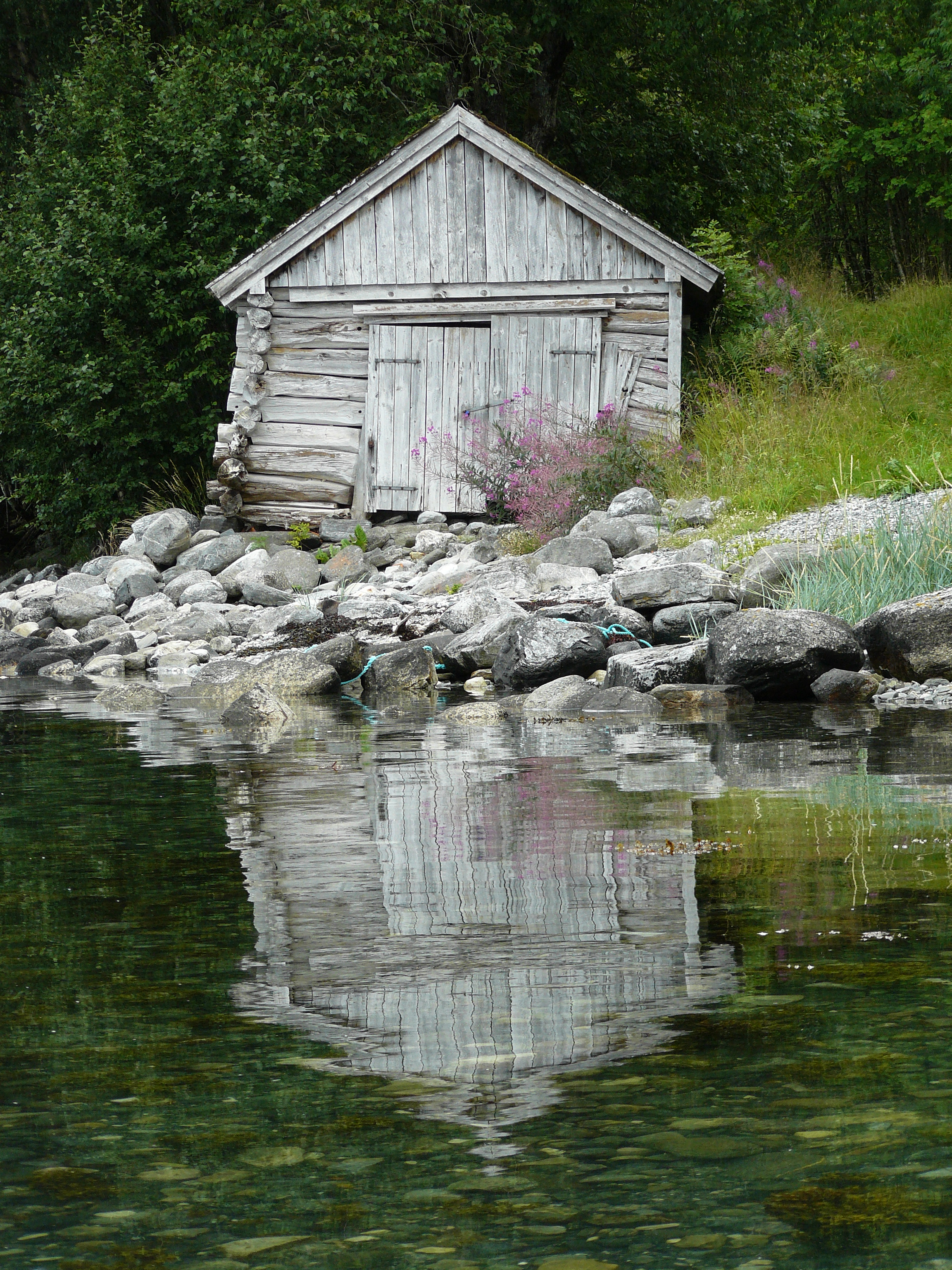 Old logged Boathouse in western Norway